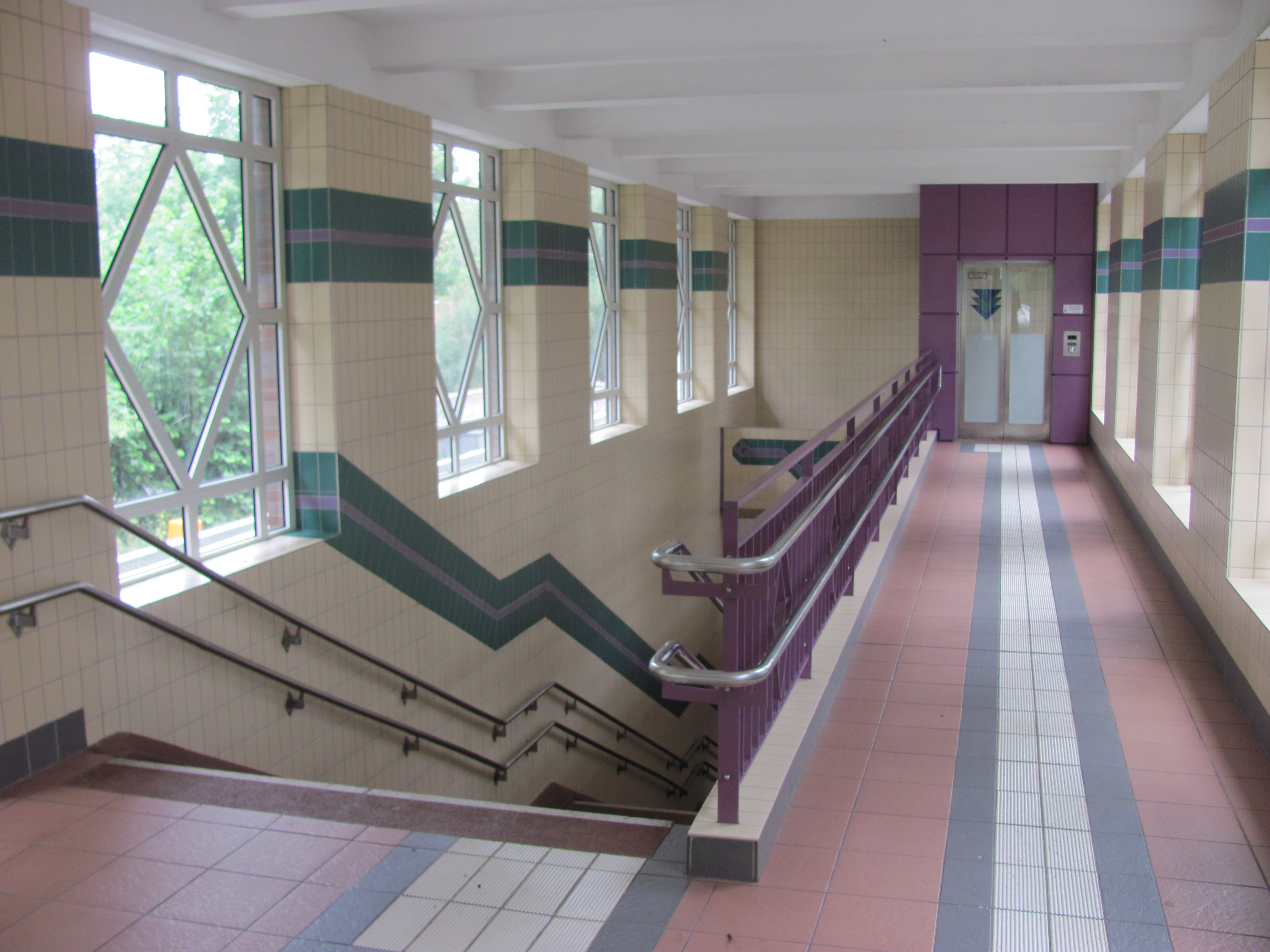 U-Bahn station Hoisbüttel in Ammersbek near Hamburg, Germany